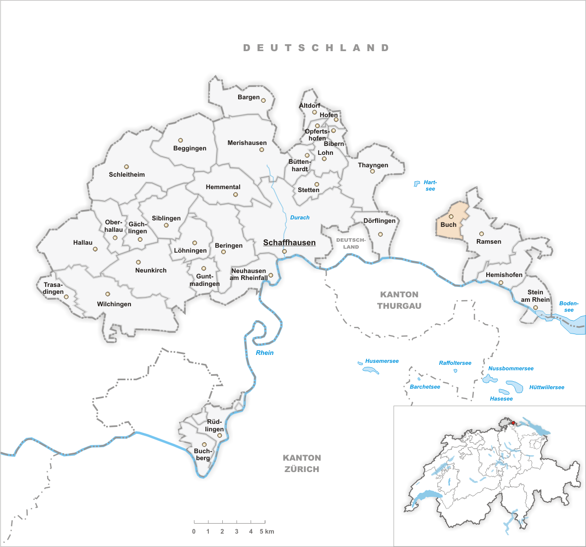 Municipality Buch